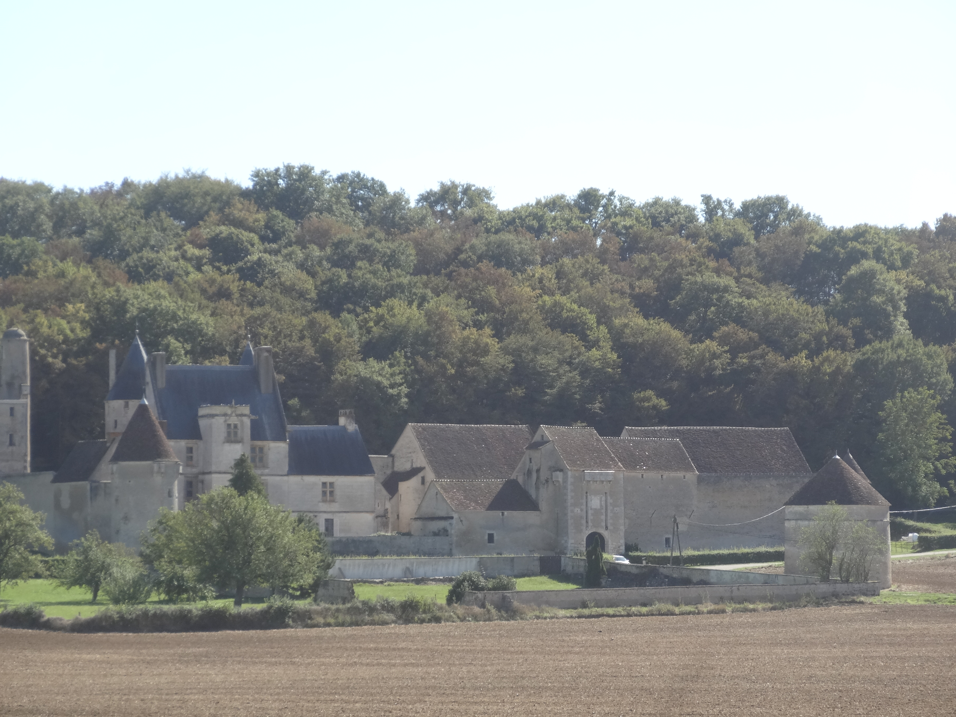 Faulin Castle, Château de Faulin, Lichères-sur-Yonne, Département Yonne, Région Bourgogne-Franche-Comté, France.